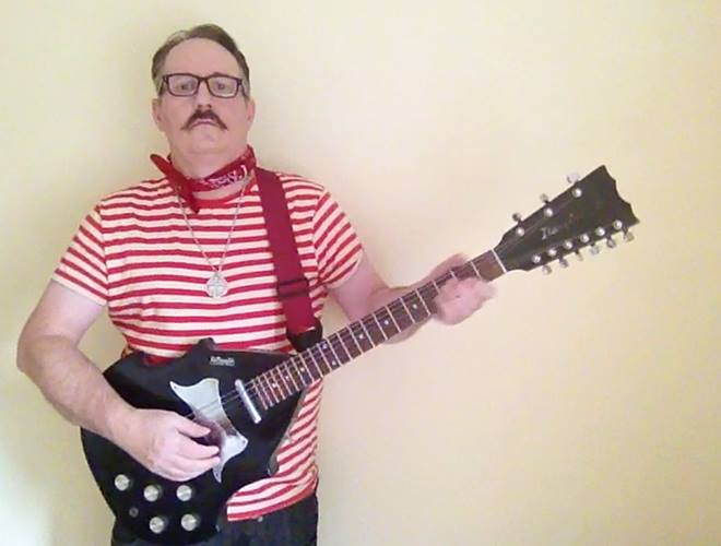 JC Carroll taken from the Video English Girls